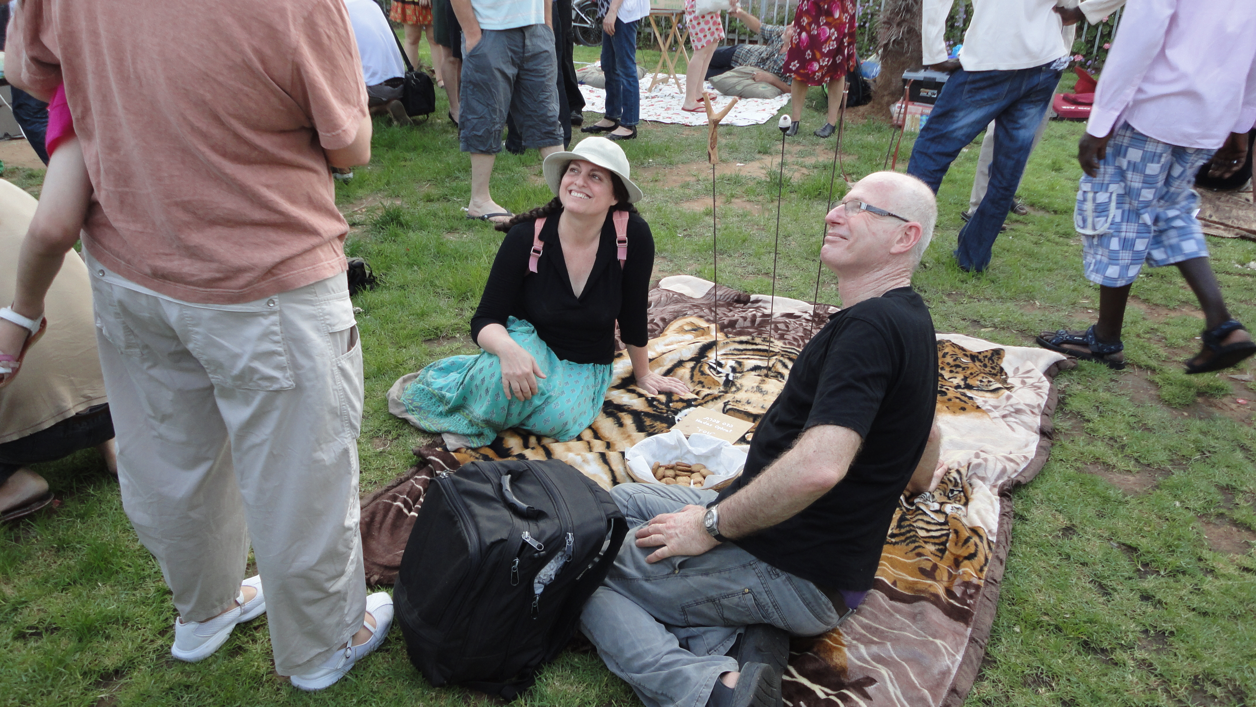 Hadass Ophrat at Evening in the Park, Art PIcnic Levinski Garden, Neve Shaanan, Tel Aviv